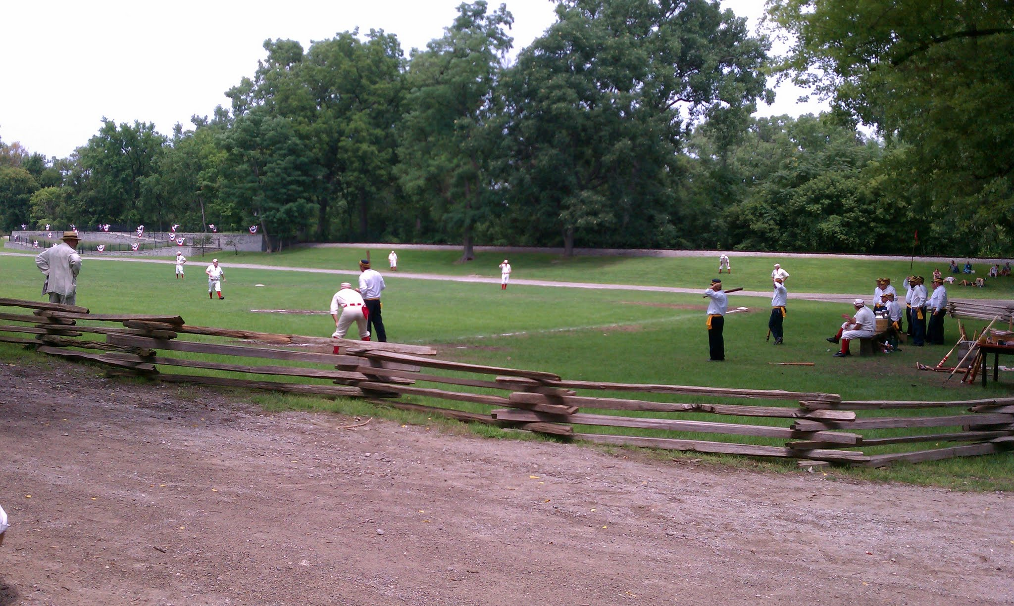 Vintage base ball game at Greenfield Village, Dearborn, Michigan, on August 7, 2011, between the Lah-De-Dahs of Greenfield Village (white with red) and the Monitor Base Ball Club of Chelsea, Michigan (white and blue with yellow). The Lah-DeDahs are fielding and Monitor BBC are batting.